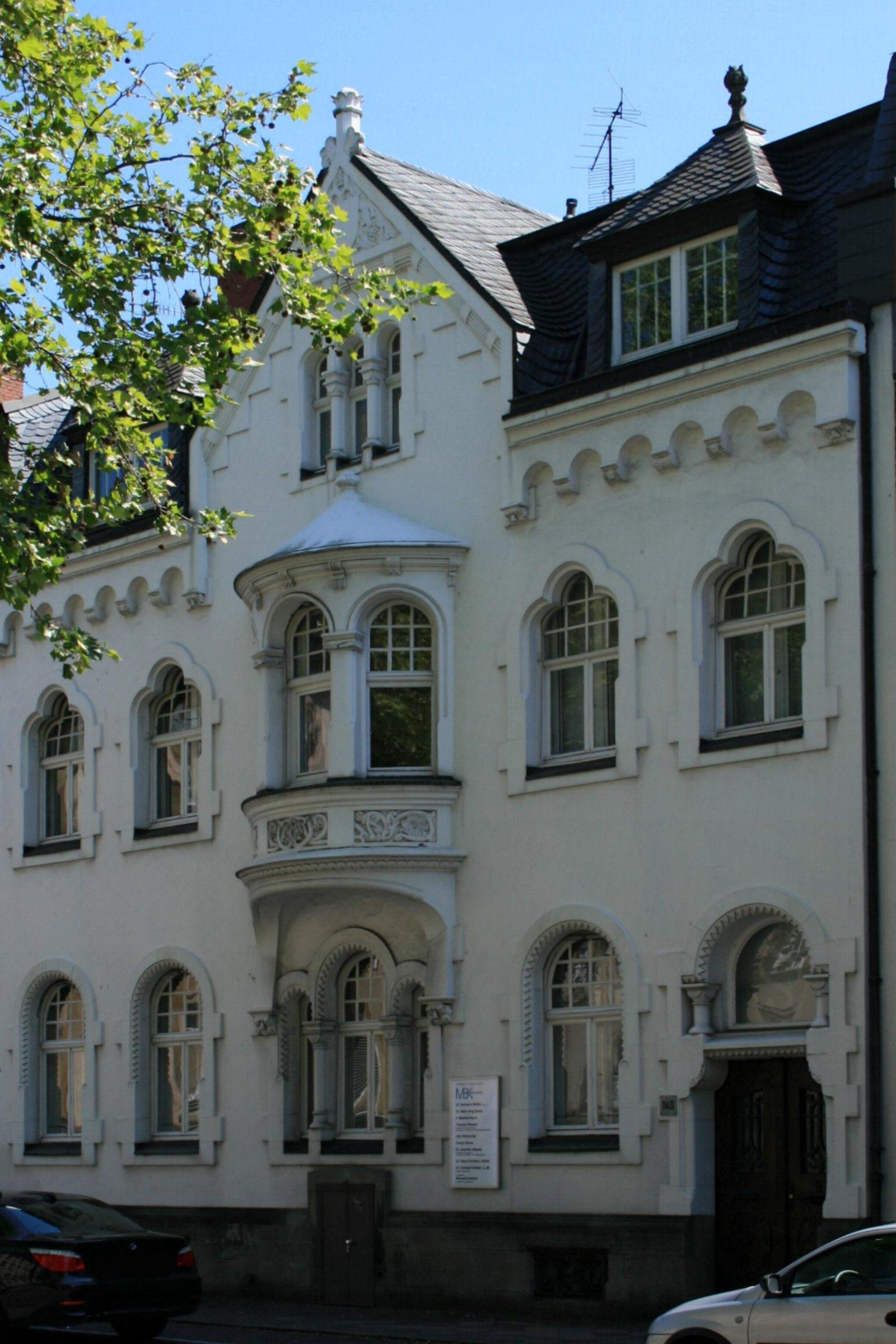 Cultural heritage monument No. H 014 in Mönchengladbach